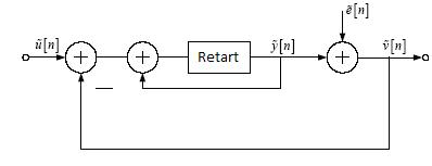 Discret SD 1º Order